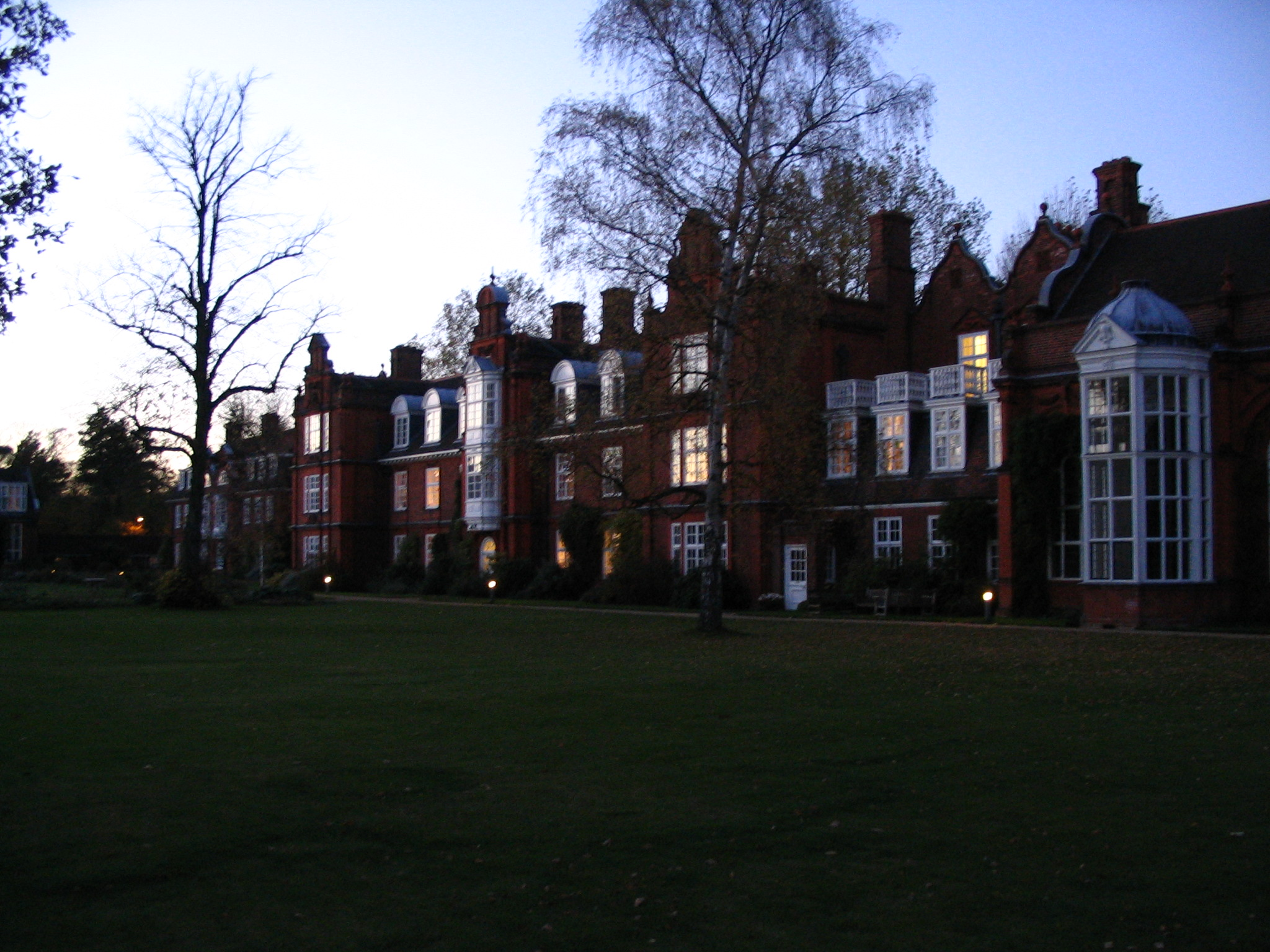 Newnham College, Cambridge